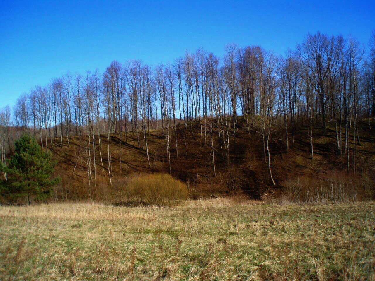 Vadagiai mound